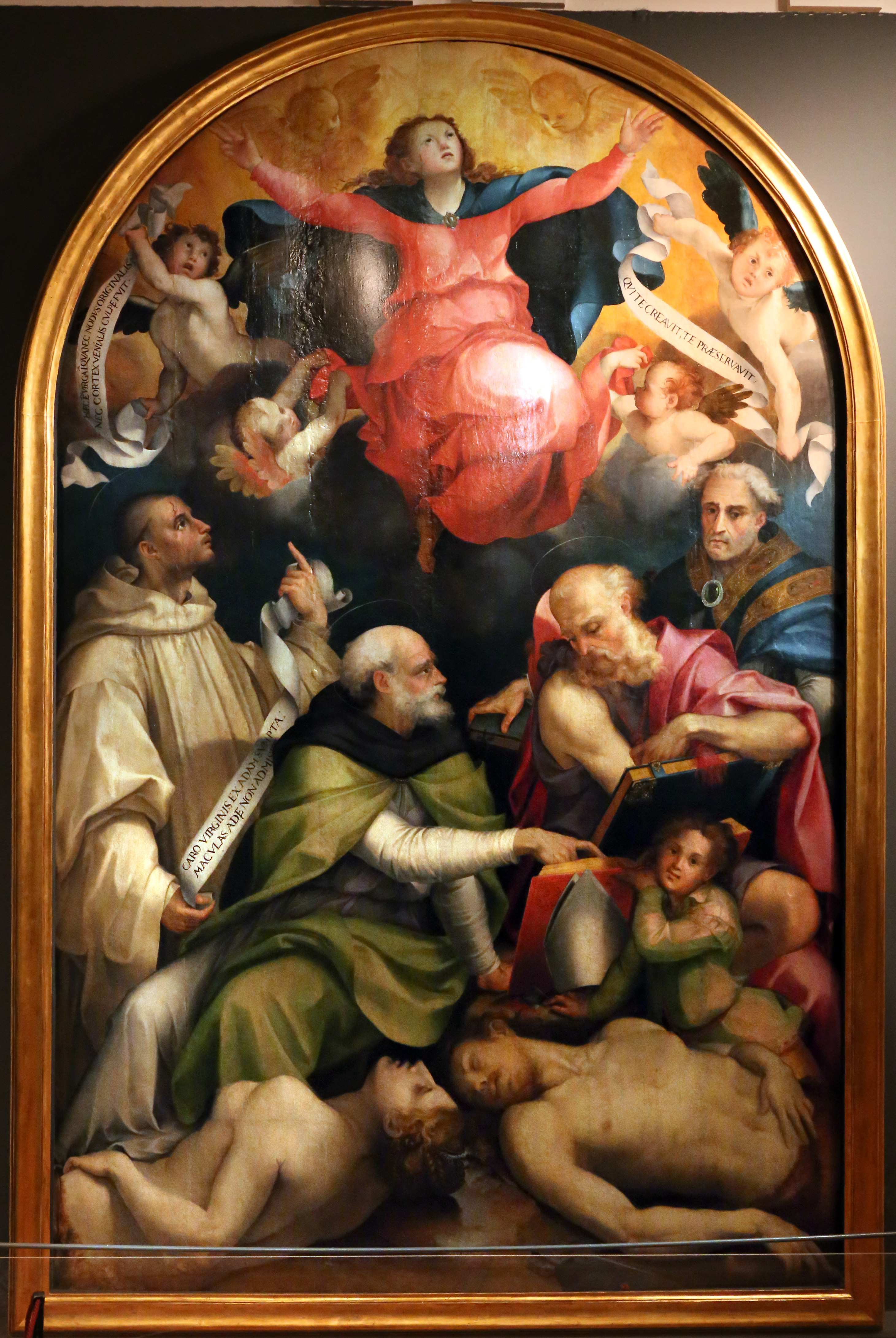 La Bellezza Salvata (2016-2017 exhibition)